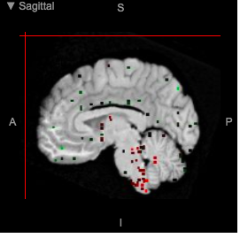 An image depicting RAI14 microarray expression data that has been mapped over an MRI of the human brain. Image Credit: Allen Institute